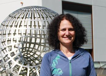 Gigliola Staffilani at Oberwolfach (2013)